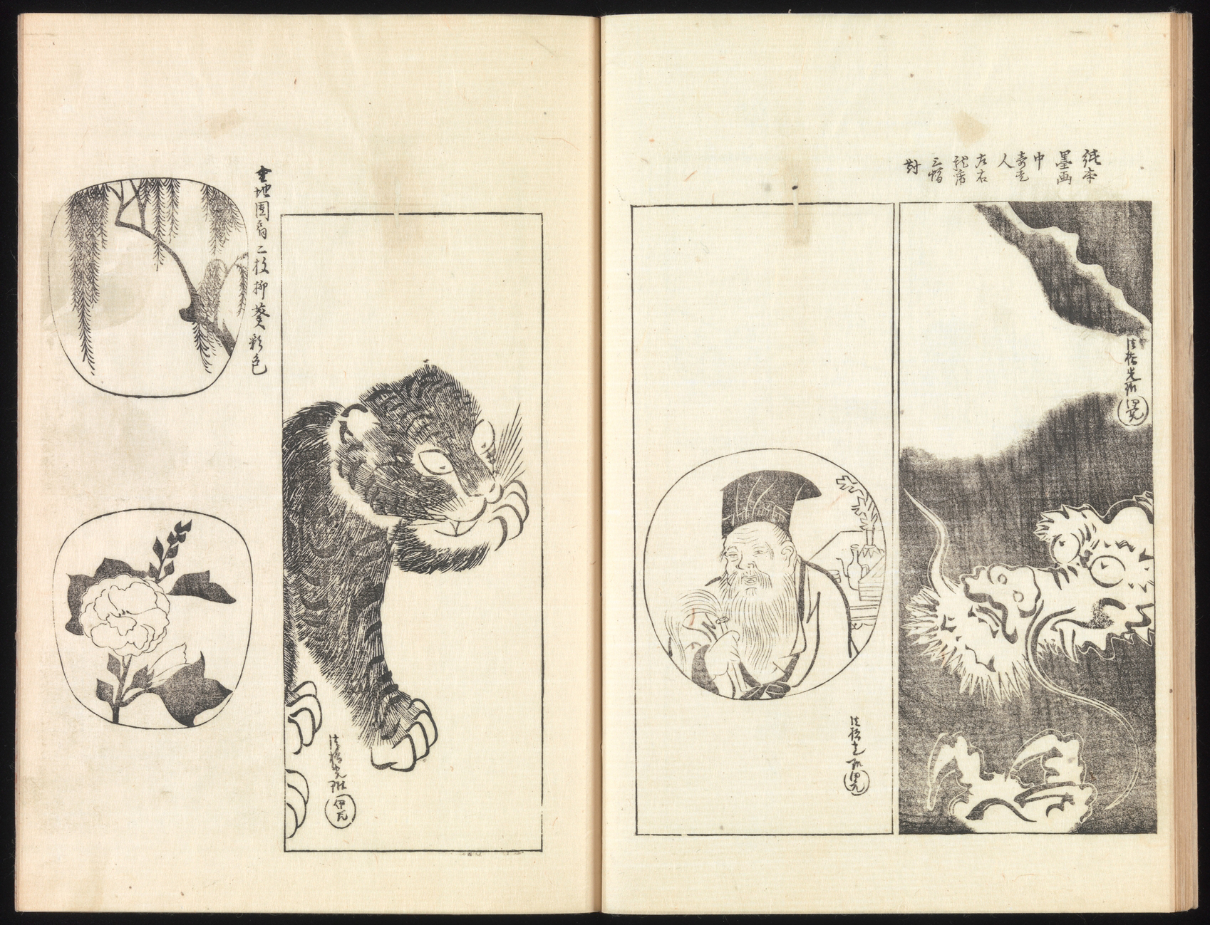 Japan; Illustrated book; Prints